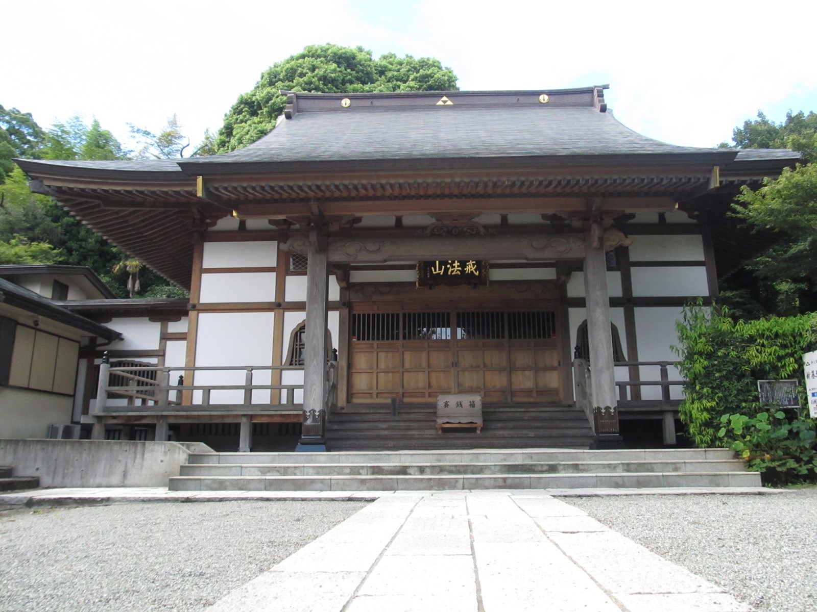 Niden-ji in Fujisawa City, Kanagawa Prefecture, Japan